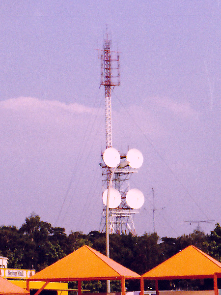 This transmitter mast at Clayallee was also used to broadcast AFN TV Berlin. Here seen from the Volksfest ground at Hüttenweg.